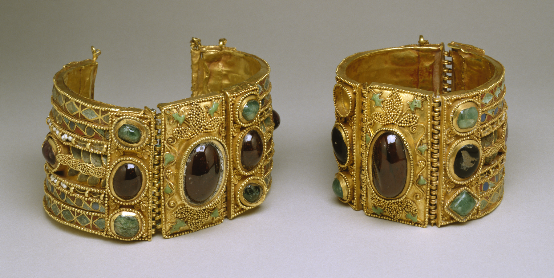 This outstanding example of jewelry from the 1st-century-BC Greek colonies in the Black Sea region is purported to belong to the famed Olbia treasure, named for the town in present-day Ukraine in which it was discovered at the end of the 19th century. Whether the bracelets, necklaces, earrings, dress ornaments, and other items in the Walters' collection really came from the same tomb remains unclear. These impressive bracelets have a centerpiece linked by hinges to the two arms. Each bracelet can be closed with a pin that runs through intertwining hoops. The lavish embellishment includes granulation, cloisonné work, and beading as well as multicolored enamel and gemstone inlays in various settings. Using multiple colors and sizes of gemstones became common in Greek jewelry making after the conquest of the East by Alexander the Great (356-323 BC), which opened up new trade routes and introduced the Greeks to Oriental styles.